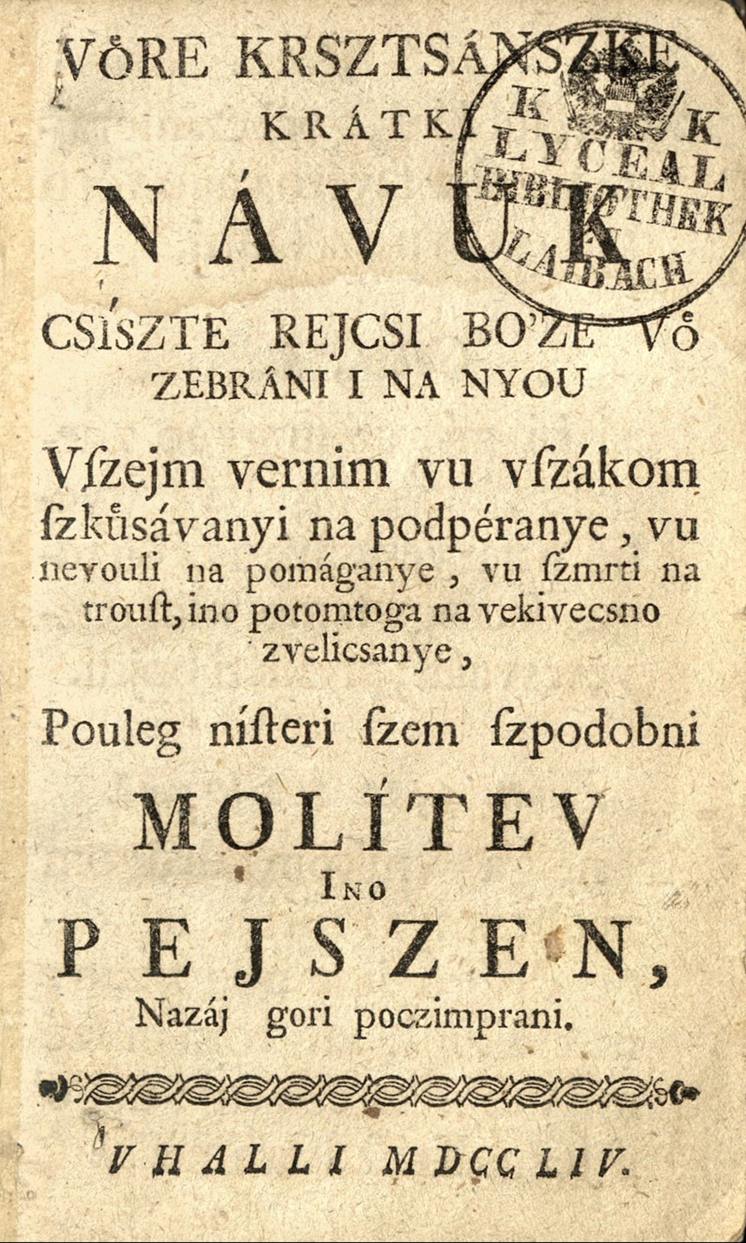 István Küzmics: Vöre krsztsánszke krátki návuk (Small tenet of the Christianity), cathecism in prekmurian language (prekmurščina)